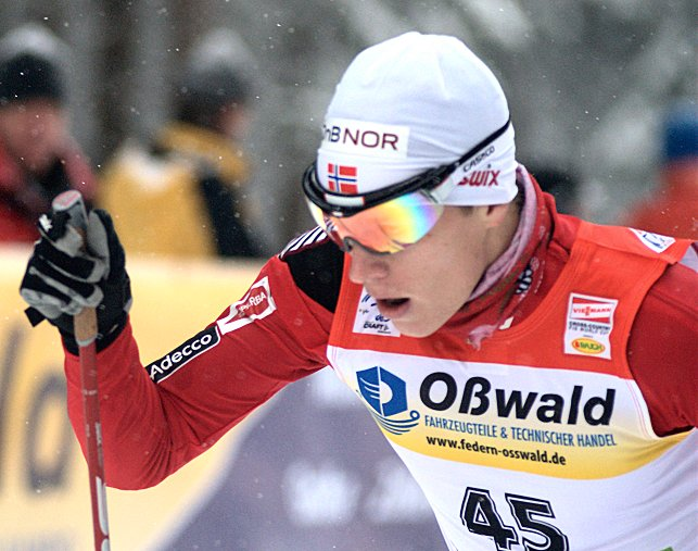 Petter Eliassen at the Tour de Ski 2010 in Oberhof